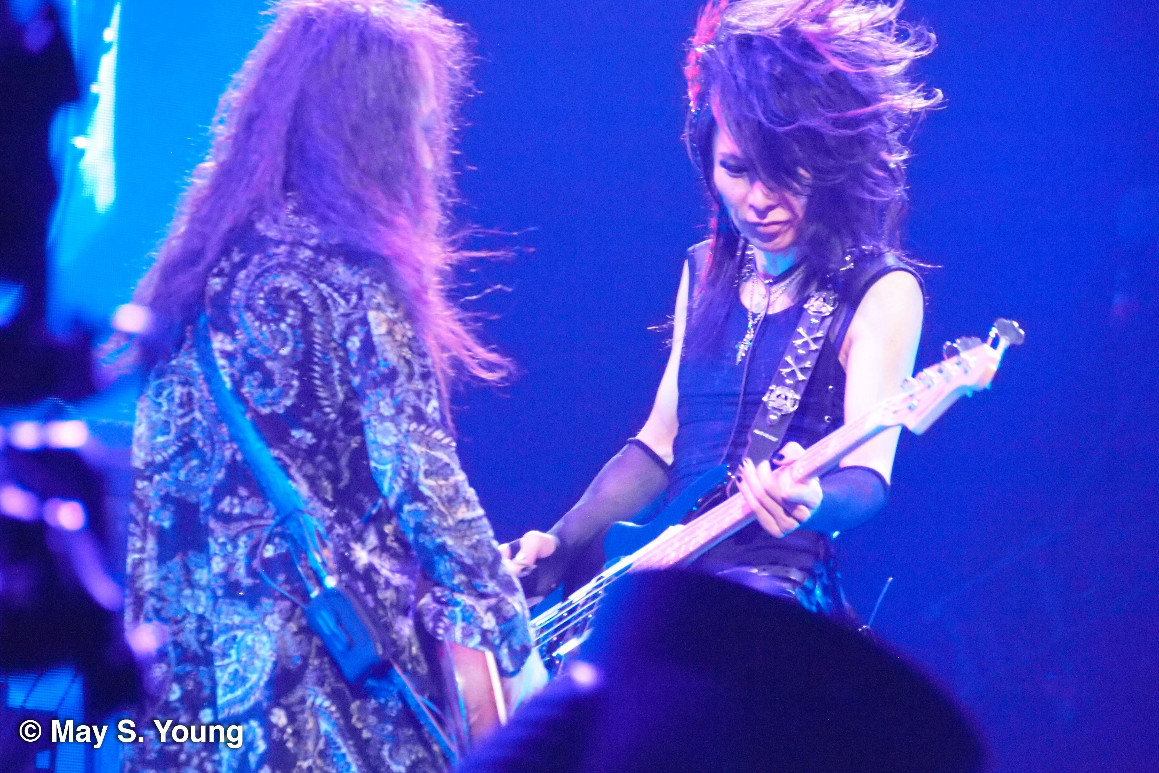 Heath along Pata of X Japan at Madison Square Garden, in New York, on October 11, 2014.